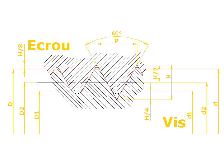 ISO metric thread